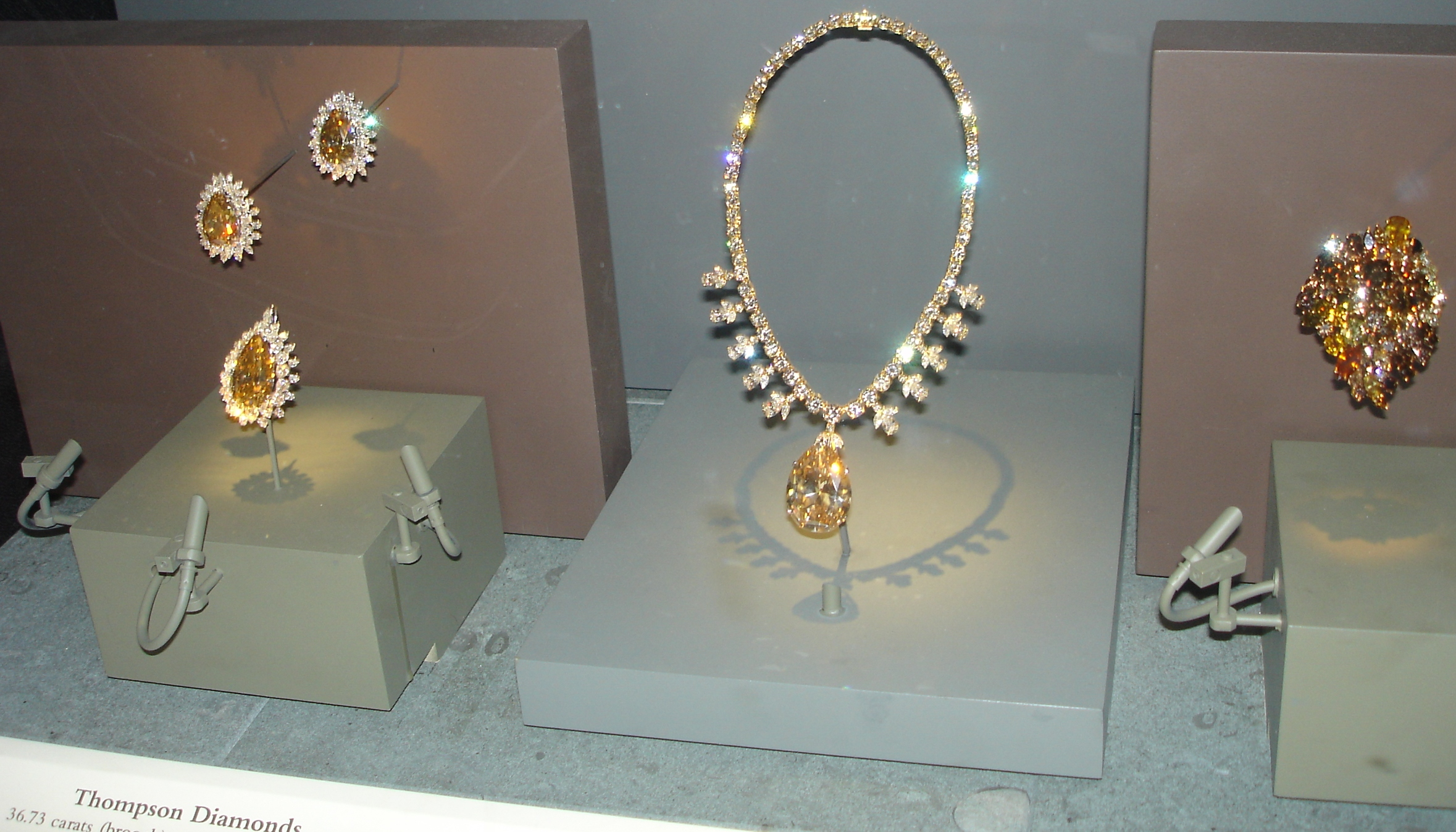 A picture I took on my senior trip